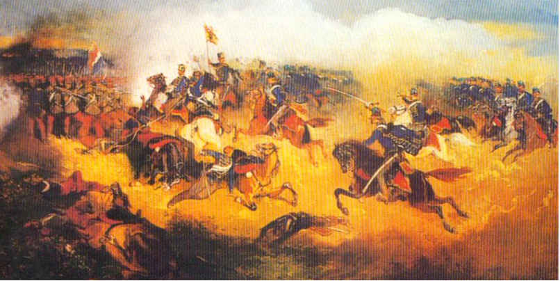 IN ATTACK, attack of the Austrian Hussar Regiment No.13 on French infantry at the Battle of Solferino, 24th June 1859.